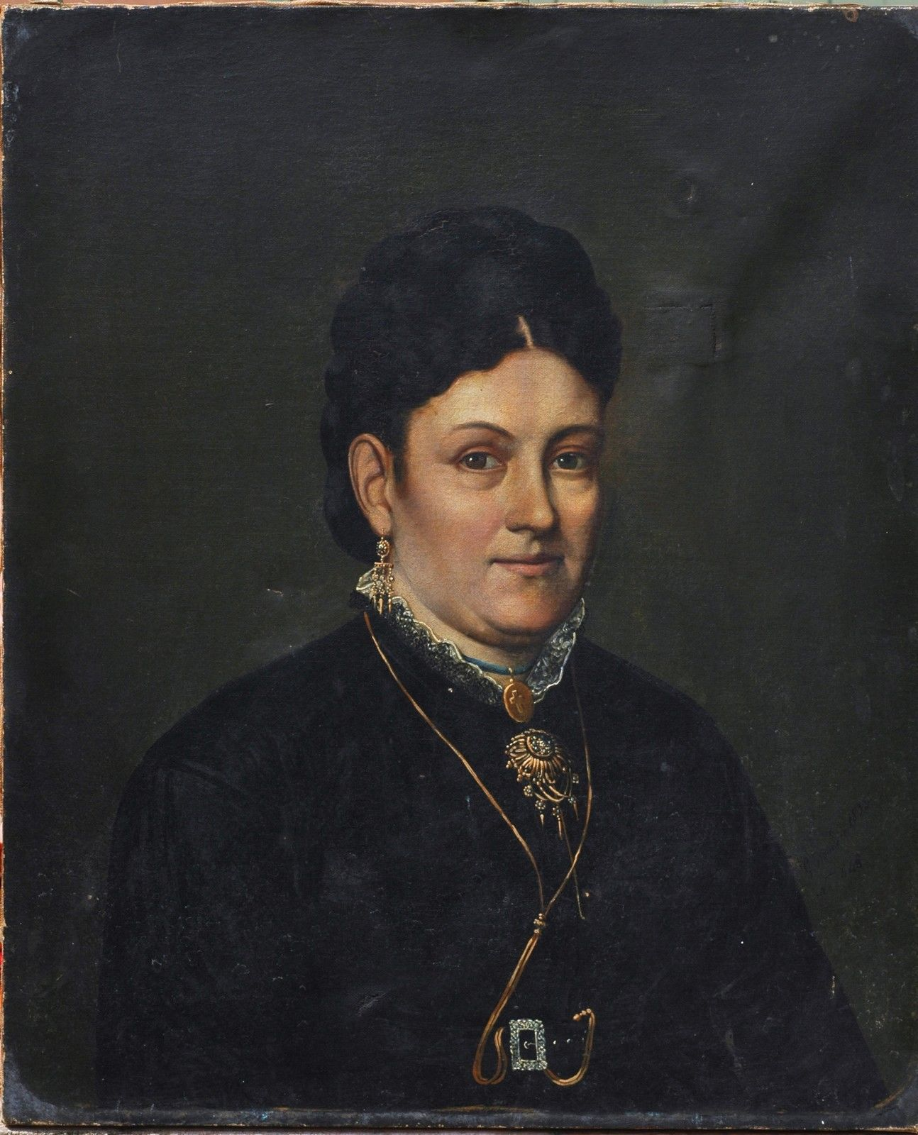 Portrait No .: 645, painted by Giovanni Donadio, 1875